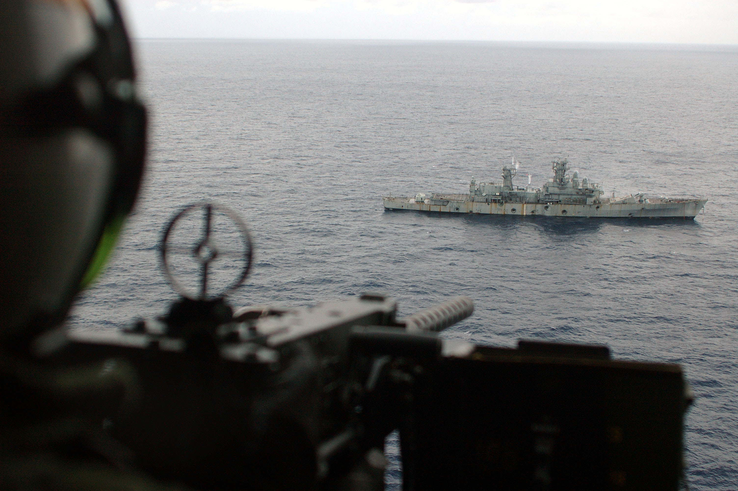 Coral Sea (June 23, 2005) – An Aircrew member, assigned to Helicopter Anti-Submarine Squadron Fourteen (HS-14), practices firing a Browning .50-caliber machine gun during a live-fire exercise on the decommissioned guided missile cruiser USS William H. Standley (CG 32). Kitty Hawk is currently operating in the Coral Sea in support of Exercise Talisman Sabre 2005. Talisman Sabre is an exercise jointly sponsored by the U.S. Pacific Command and Australian Defence Force Joint Operations Command, and designed to train the U.S. Seventh Fleet commander's staff and Australian Joint Operations staff as a designated Combined Task Force (CTF) headquarters. The exercise focuses on crisis action planning and execution of contingency response operations. U.S. Pacific Command units and Australian forces will conduct land, sea and air training throughout the training area. More than 11,000 U.S. and 6,000 Australian personnel will participate. U.S. Navy photo by Photographer's Mate 2nd Class William Ramsey (RELEASED)